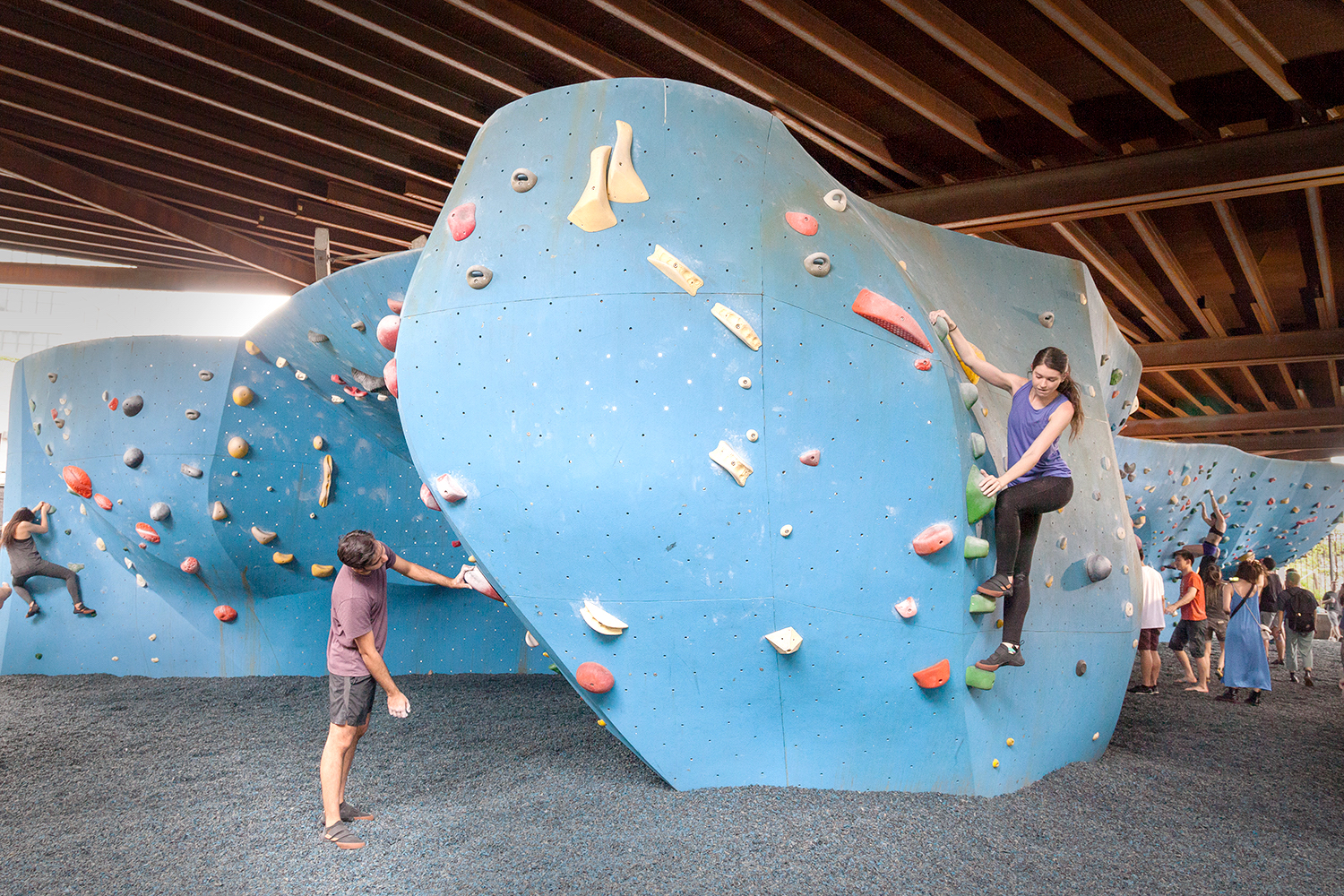 The Cliffs at DUMBO is the largest outdoor bouldering gym in North America. (Photo gallery of DUMBO, Brooklyn)